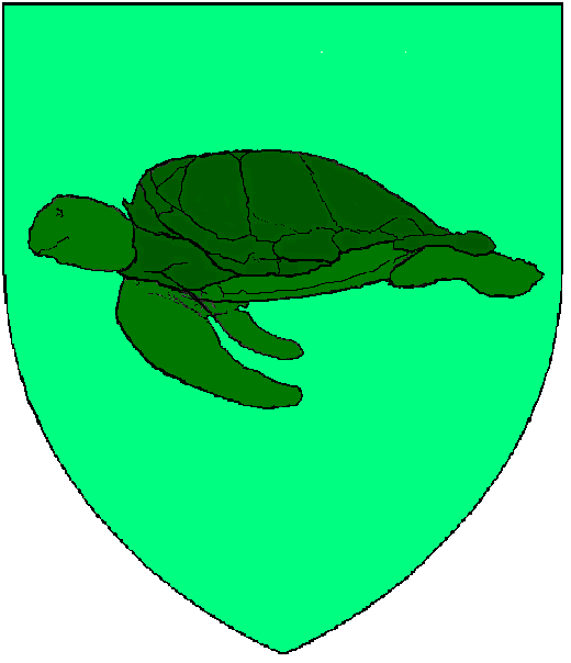 House Estermont: a dark green sea turtle on pale green.